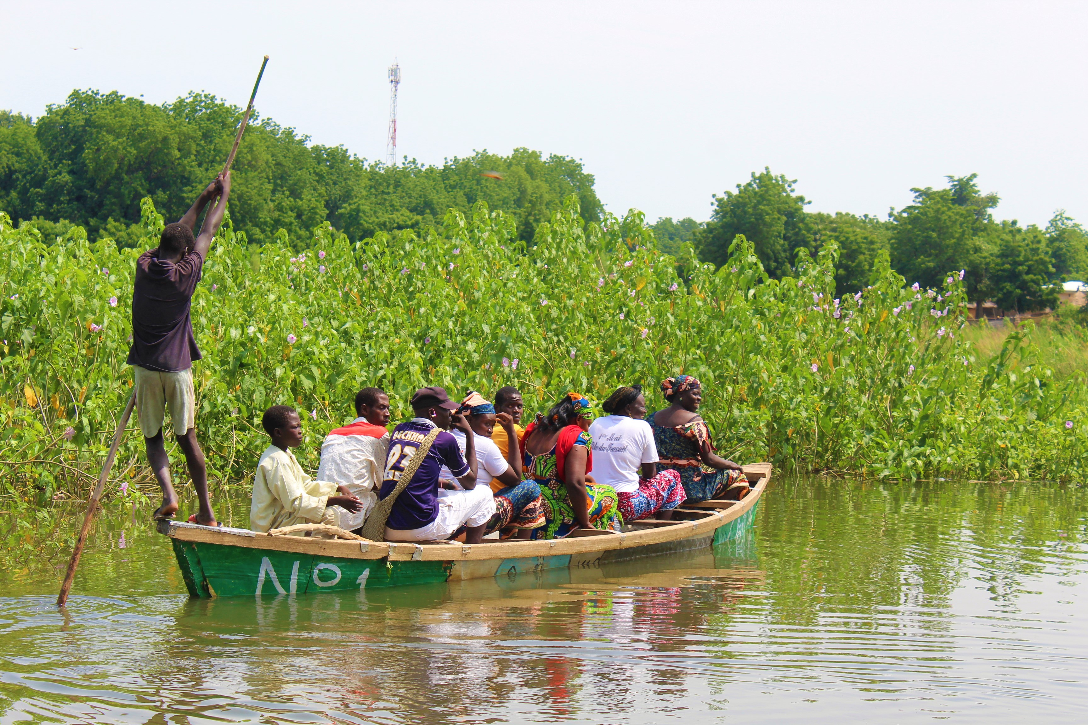 Yagoua, ce métier tant à disparaître mais continue d'exister surtout en saison de pluie This is an image of "African people at work" from Cameroon